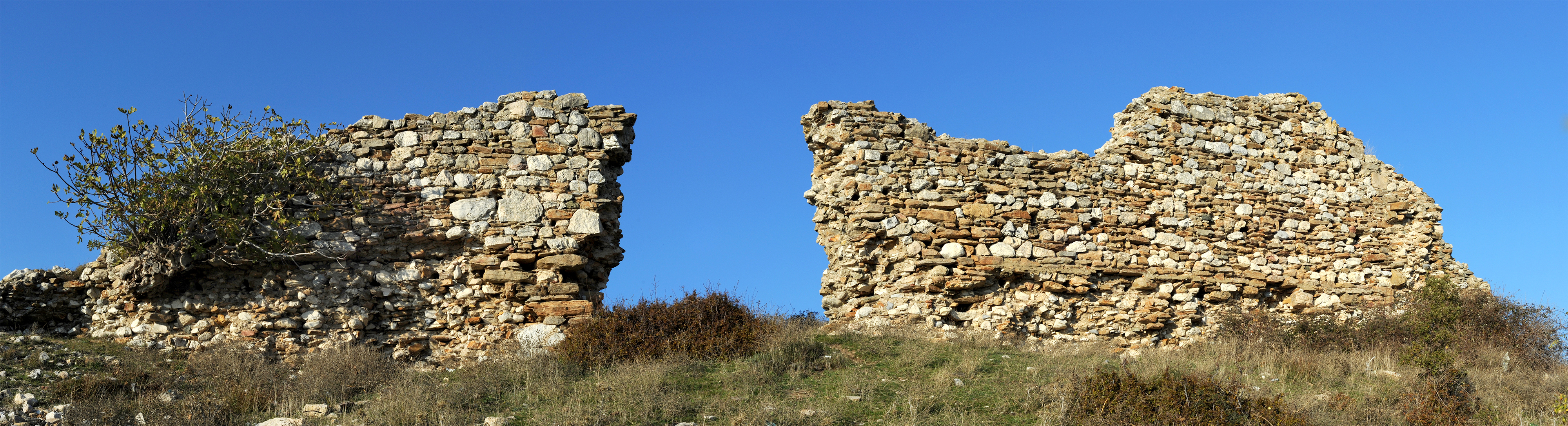 Panoramic south view of Byzantine fortress of Nimfea, north of Komotini, Thrace, Greece.